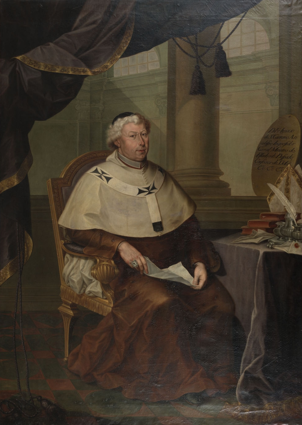 Frei Inácio de São Caetano (1719-1788), Grand Inquisitor of the Portuguese Inquisition.